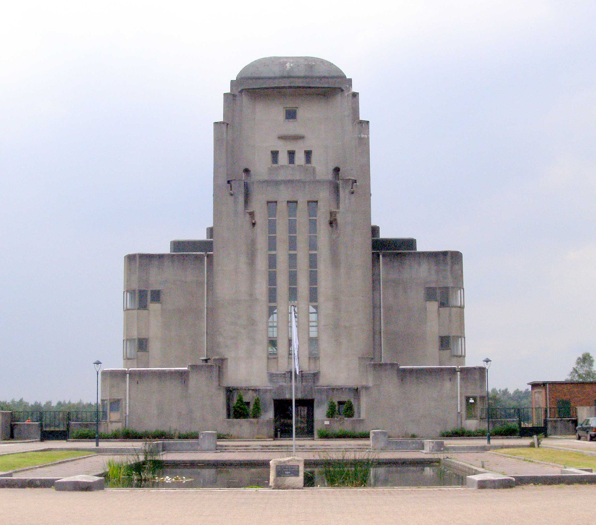 Building A of Radio Kootwijk radio transmitter park